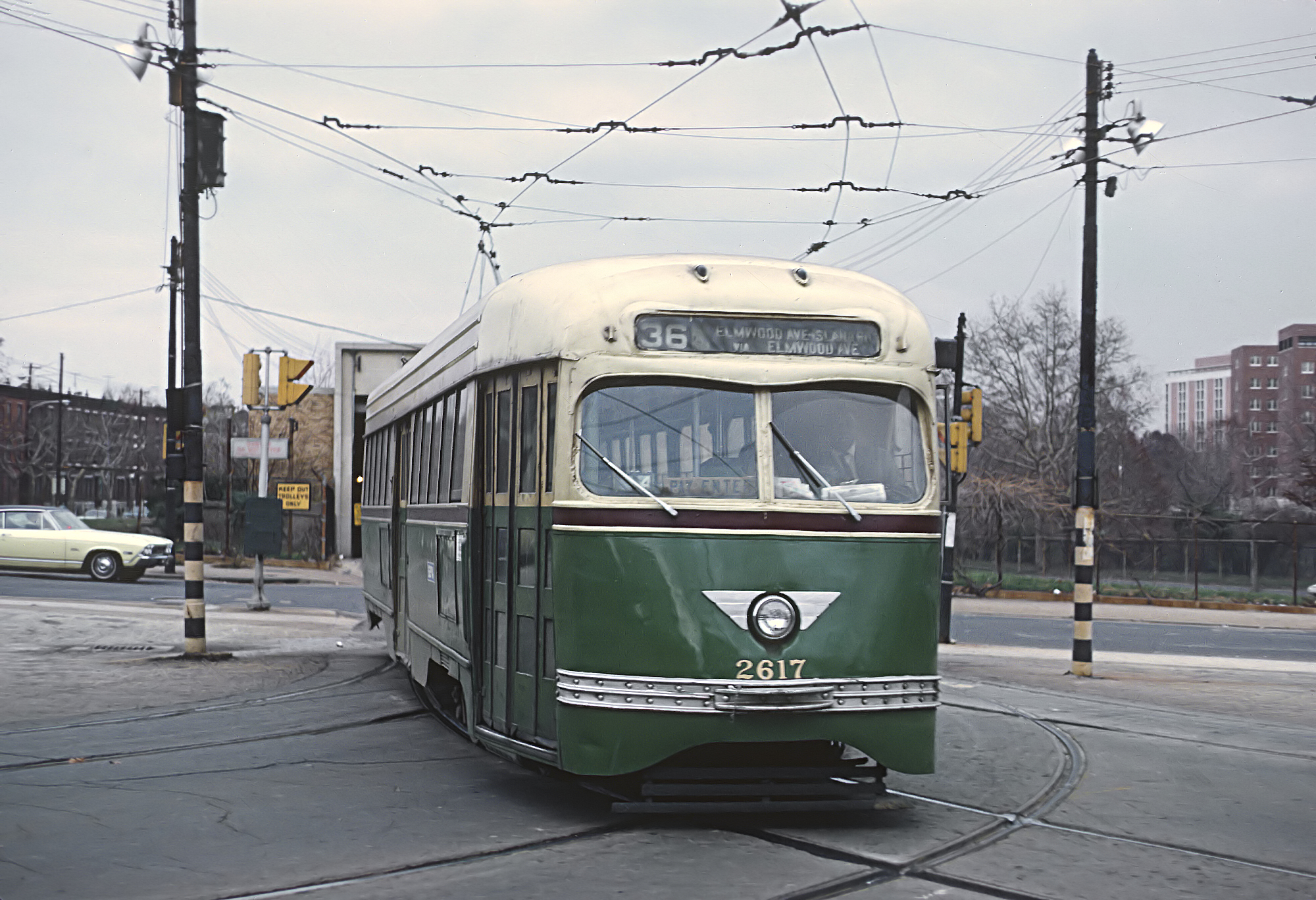 PTC = Philadelphia Transit Commission A Roger Puta photograph